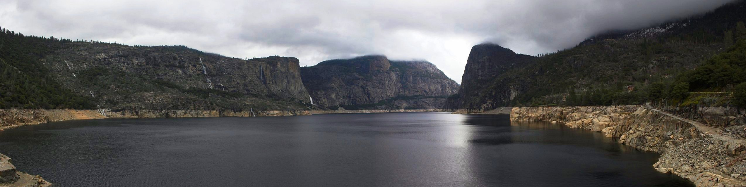 "Hetch Hetchy Reservoir in Yosemite National Park"